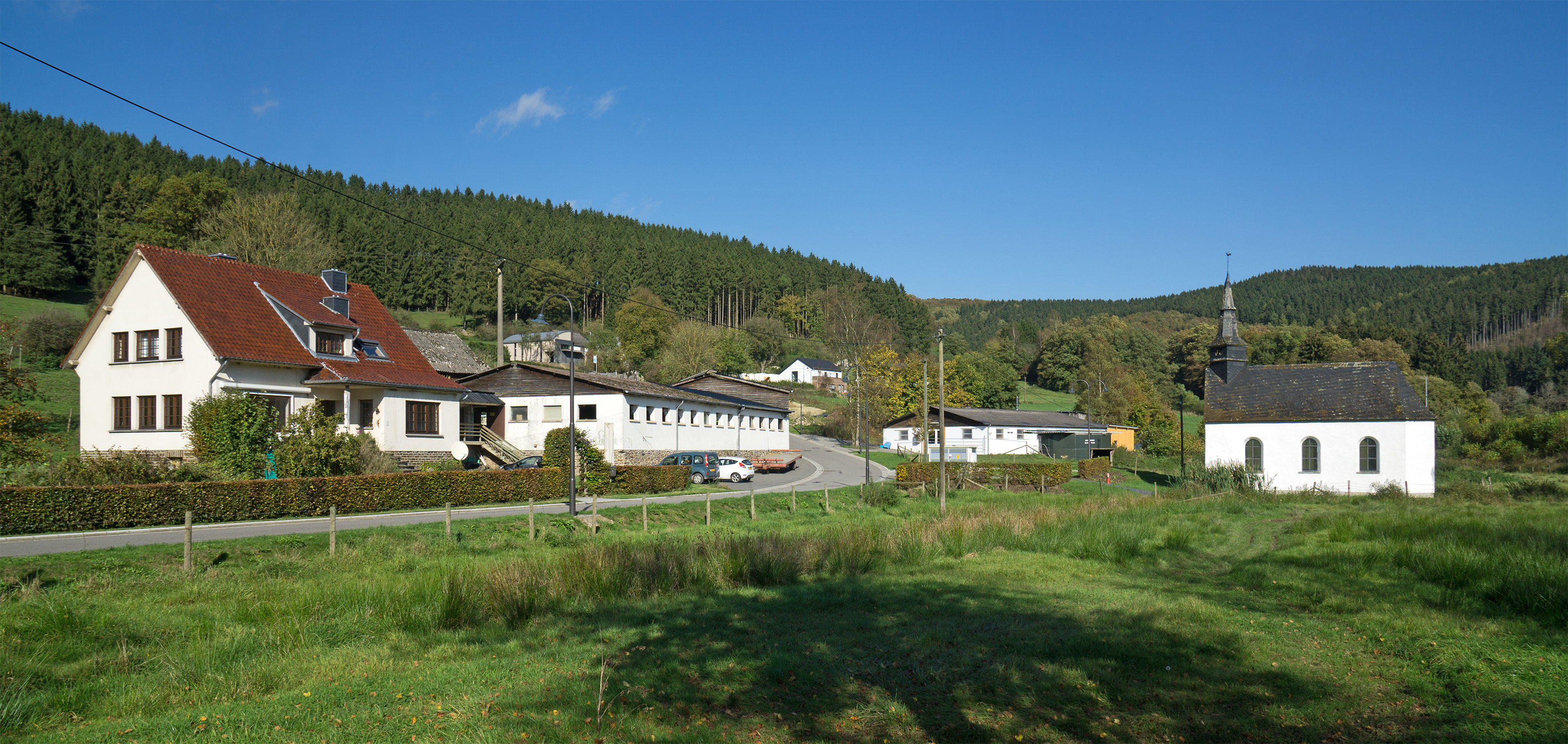 Chapel of Mecher near Clervaux